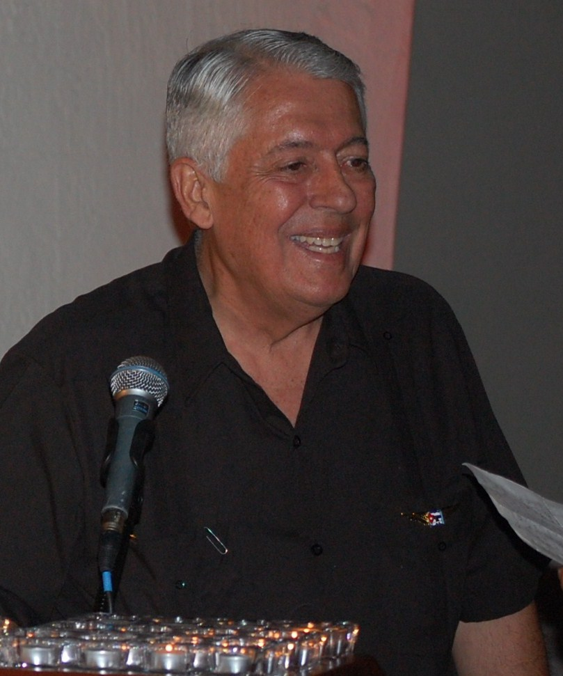 José Basulto interviewed by reporter Horacio Cambeiro in Miami, Florida (U.S.A.)